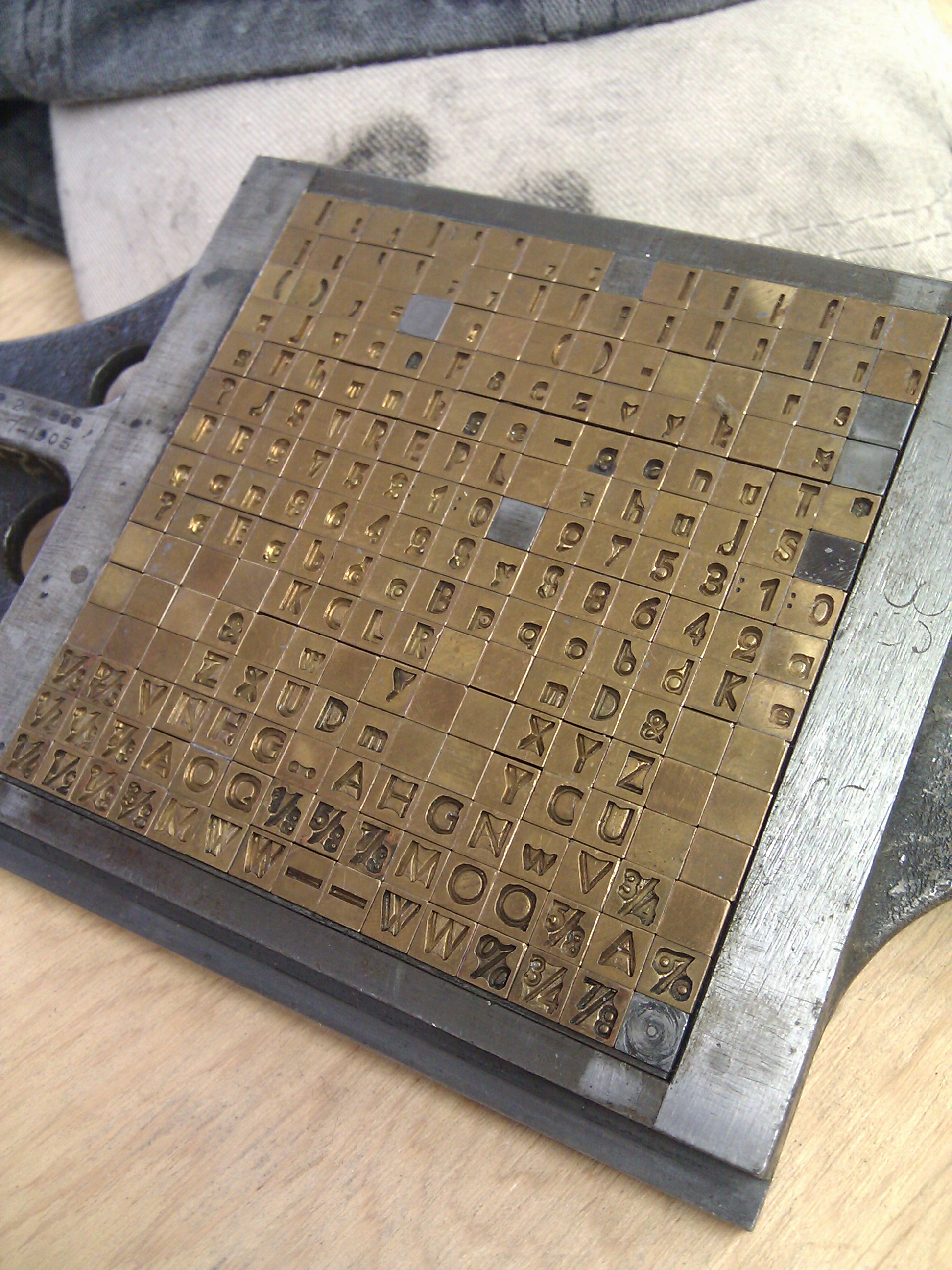 Lanston Monotype's version of Rudolf Koch's Kabel